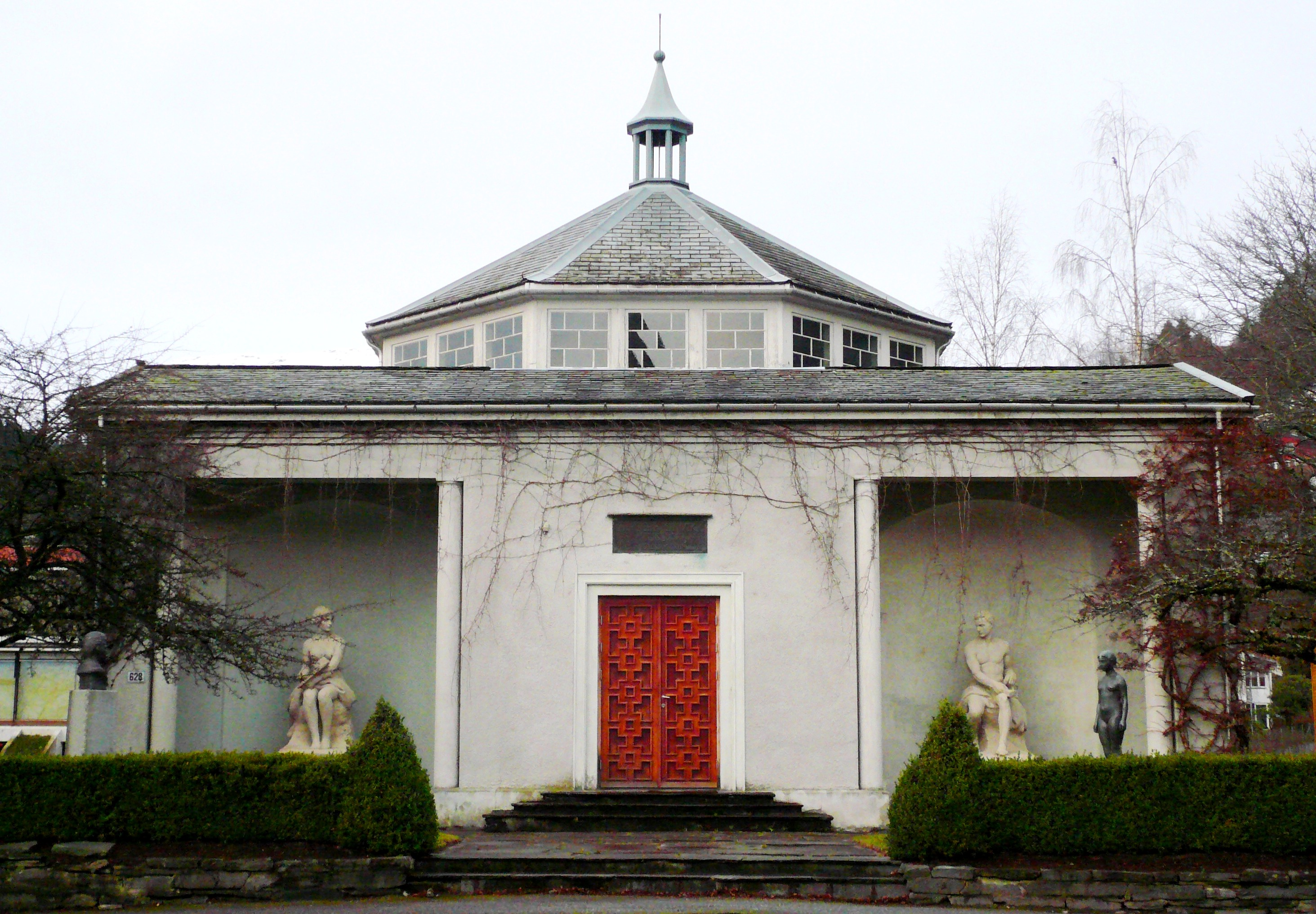 Ingebrigt Vik Museum in Øystese, Norway.